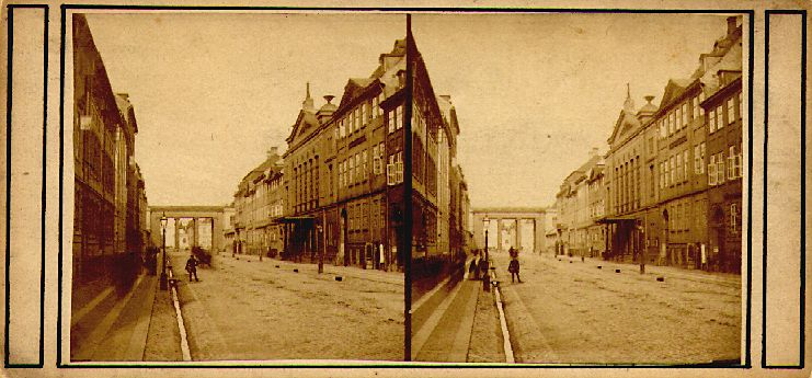 Amaliegade. Albumin, 74 x 142 mm.